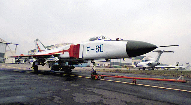 A Chinese Jian-8II (Fighter aircraft 8), or J-8 II (North Atlantic Treaty Organization reported name: Finback), being towed, armed with air-to-air missiles, rocket-pods and six iron bombs on a centerline tri-rack